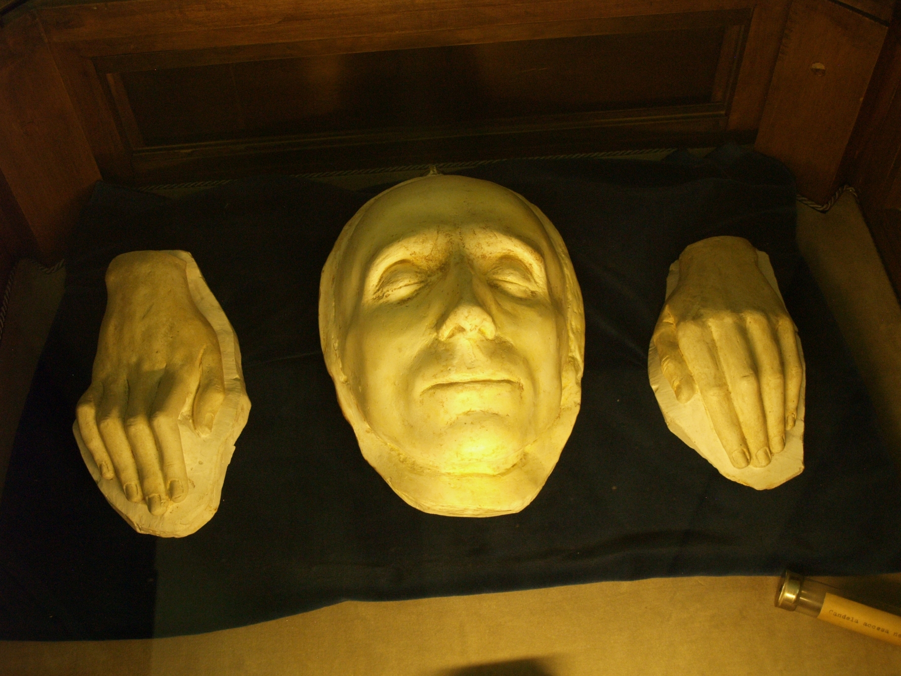 Death mask of saint Vincent Pallotti.